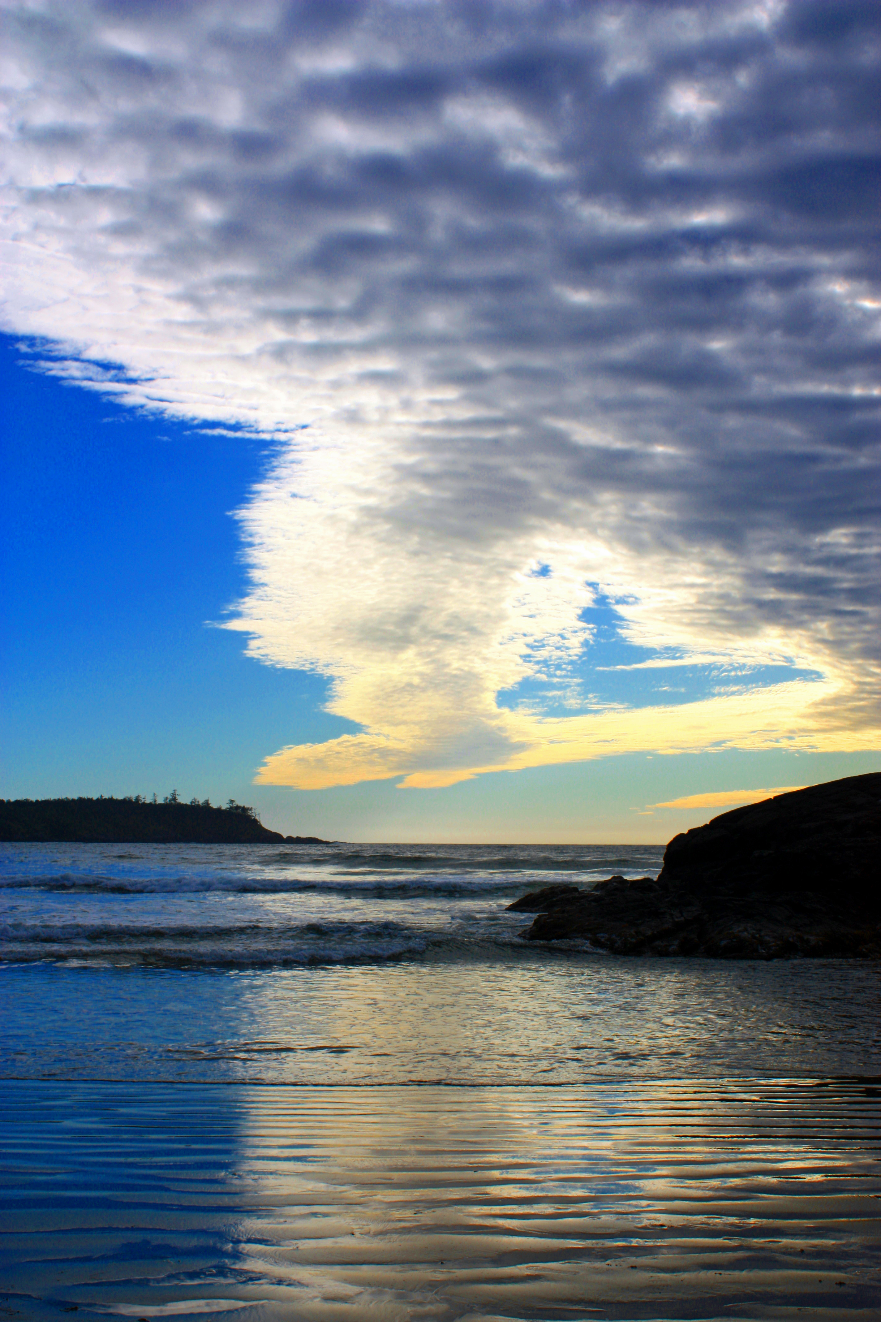 An Arctic cold front edge swings over Cox Bay, Tofino